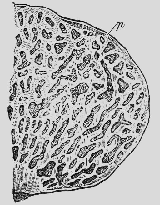 Illustration from Brockhaus and Efron Encyclopedic Dictionary(1890—1907)